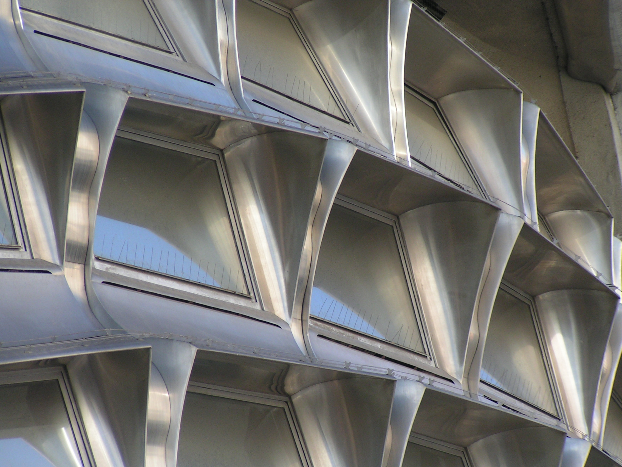 Windows of the Zentralsparkassenfiliale Favoritenstrasse Building in Vienna, District Favoriten.